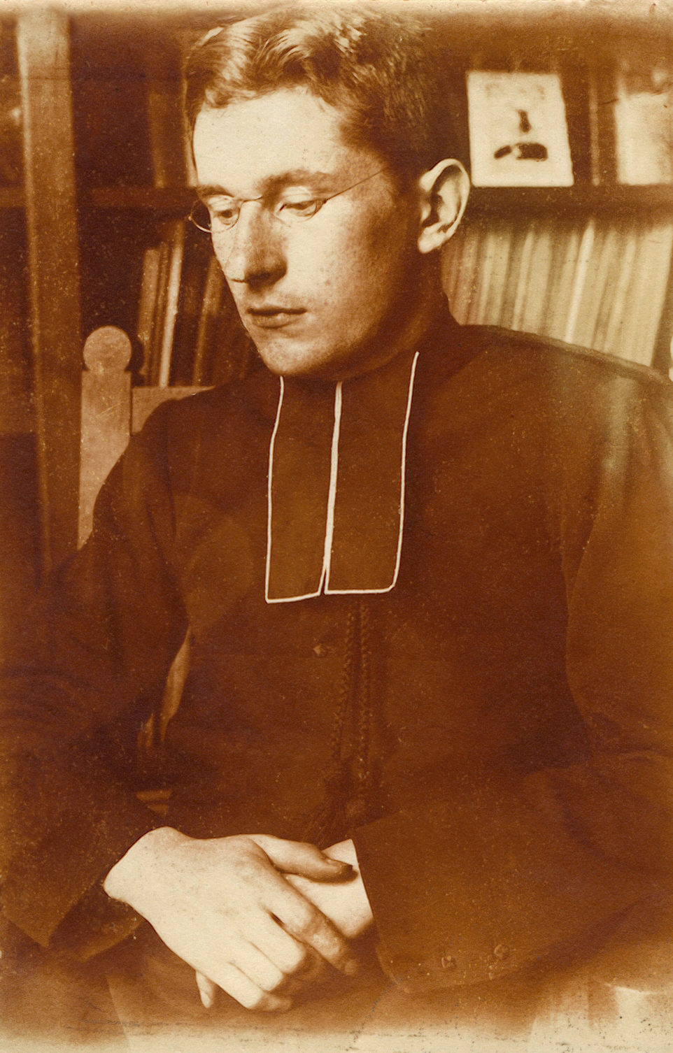 Michiel English (1885-1962), Belgian priest and historian